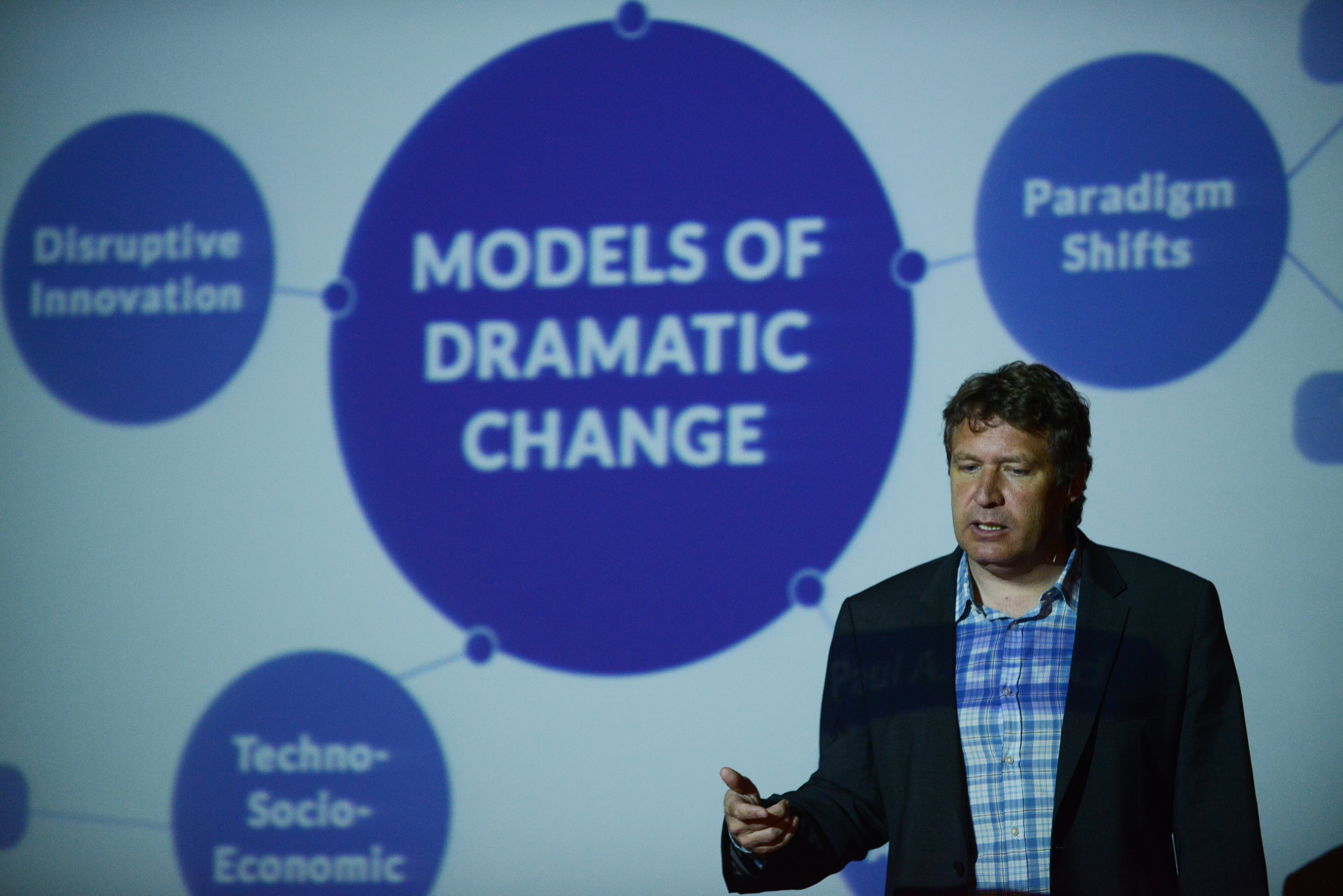 2015 in Review George Siemens ~ President's Leadsership Lecture Series